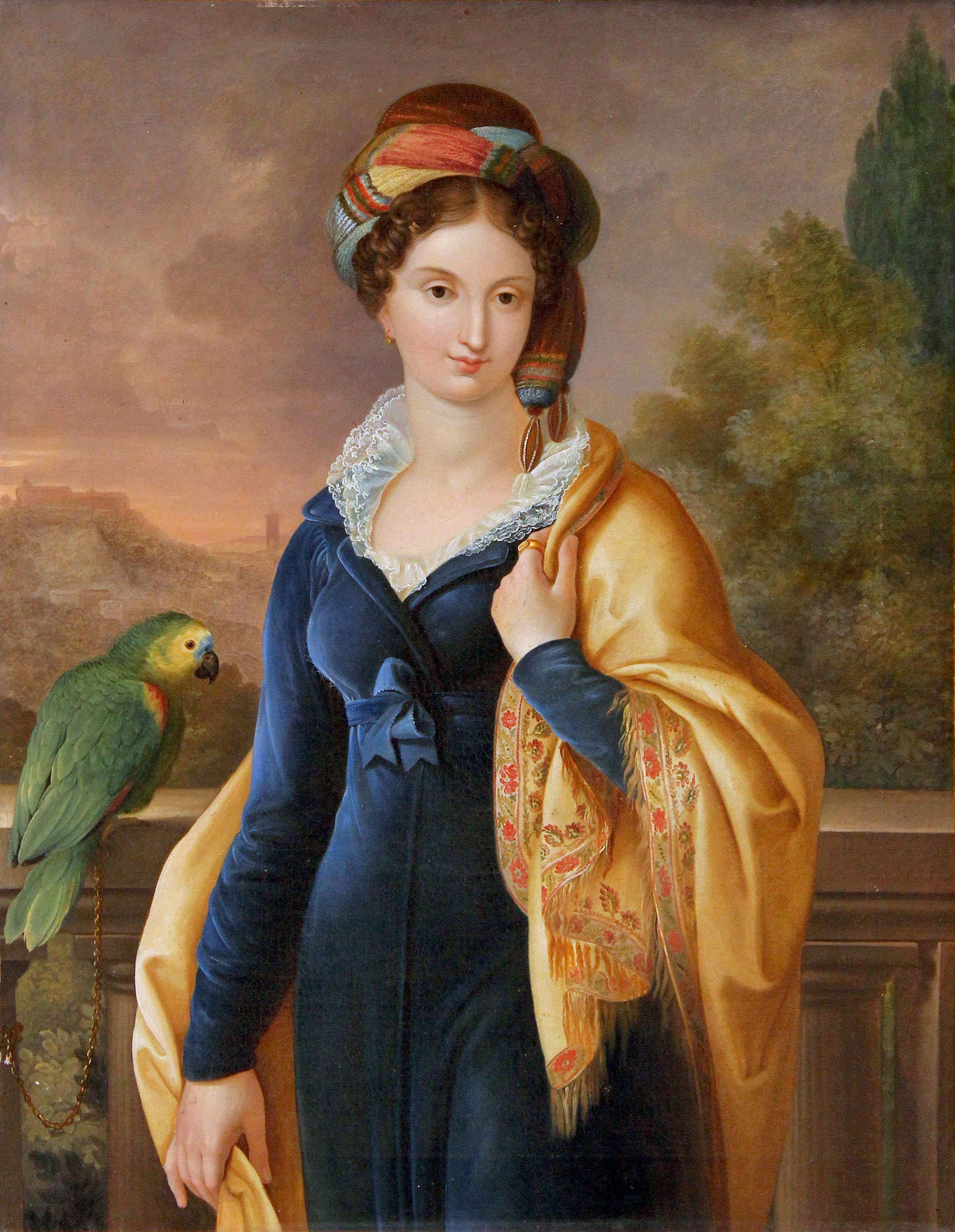 Portrait of Marianna Carolina of Saxony, first wife of Leopold II, Grand Duke of Tuscany.